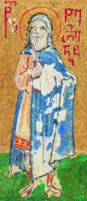 Saint Vasily of Pariya